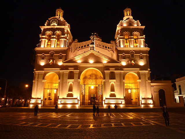 Cordoba cathedral. Cordoba, Argentina.